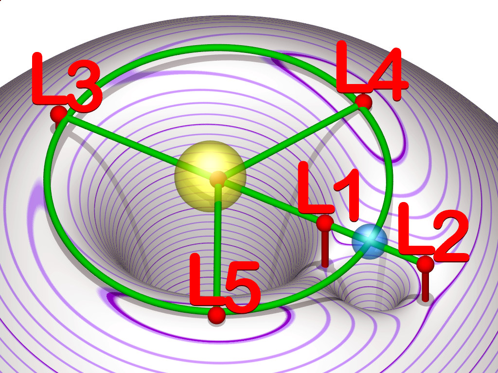 Animation showing the relationship between the five Lagrangian points (red) of a planet (blue) orbiting a star (yellow), and the gravitational potential in the plane containing the orbit (grey surface with purple contours of equal potential). The potential was computed in POV-Ray using Ψ ( x , y , z ) = ( x − q 1 + q ) 2 + y 2 + 2 ( 1 + q ) x 2 + y 2 + z 2 + 2 q ( 1 + q ) ( x − 1 ) 2 + y 2 + z 2 {\displaystyle \Psi (x,y,z)={\Big (}x-{\frac {q}{1+q {\Big )}^{2}+y^{2}+{\frac {2}{(1+q){\sqrt {x^{2}+y^{2}+z^{2 }+{\frac {2q}{(1+q){\sqrt {(x-1)^{2}+y^{2}+z^{2 for q = 0.1 and z = 0.[1]